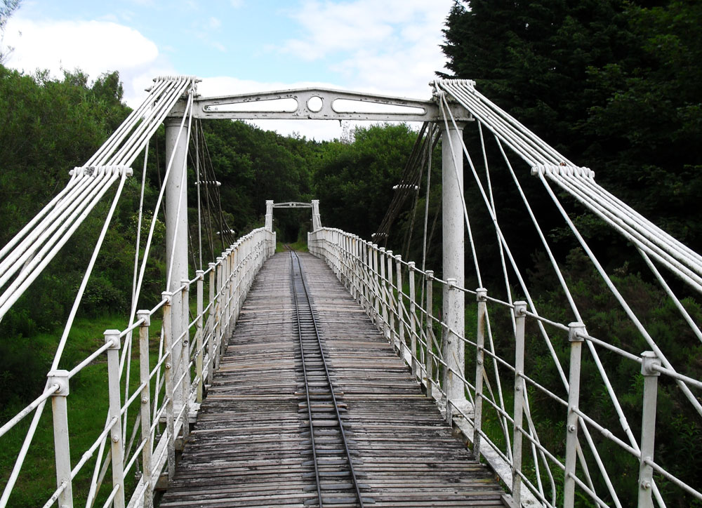 Railway bridge on the Ness Islands Railway, in Whin Park in Inverness. This Taper Suspesion Bridge by James Dredge originally spanned the River Ness nearby.